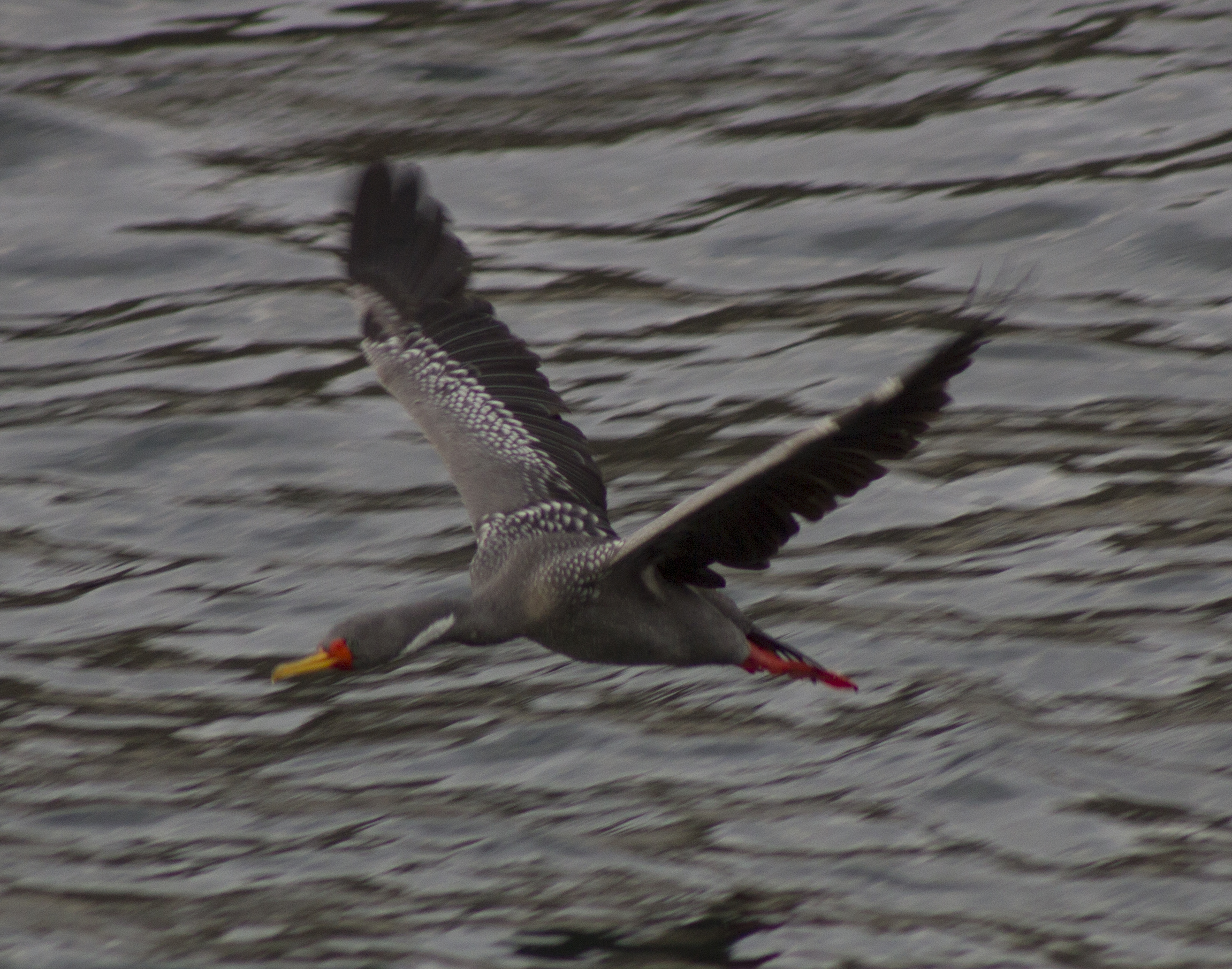 Phalacrocorax gaimardi